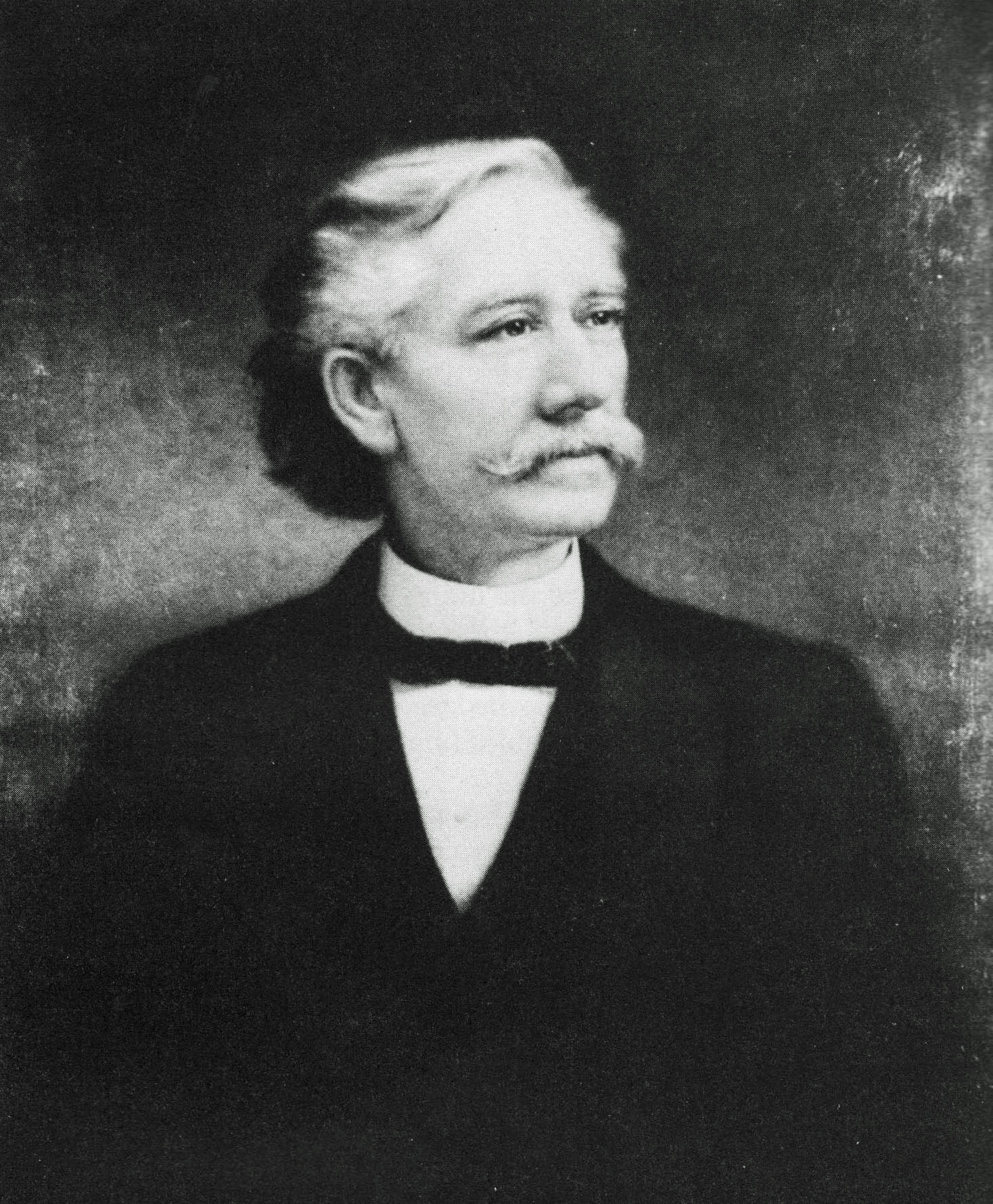 Portrait of Virginia Governor Charles T. O'Ferrall